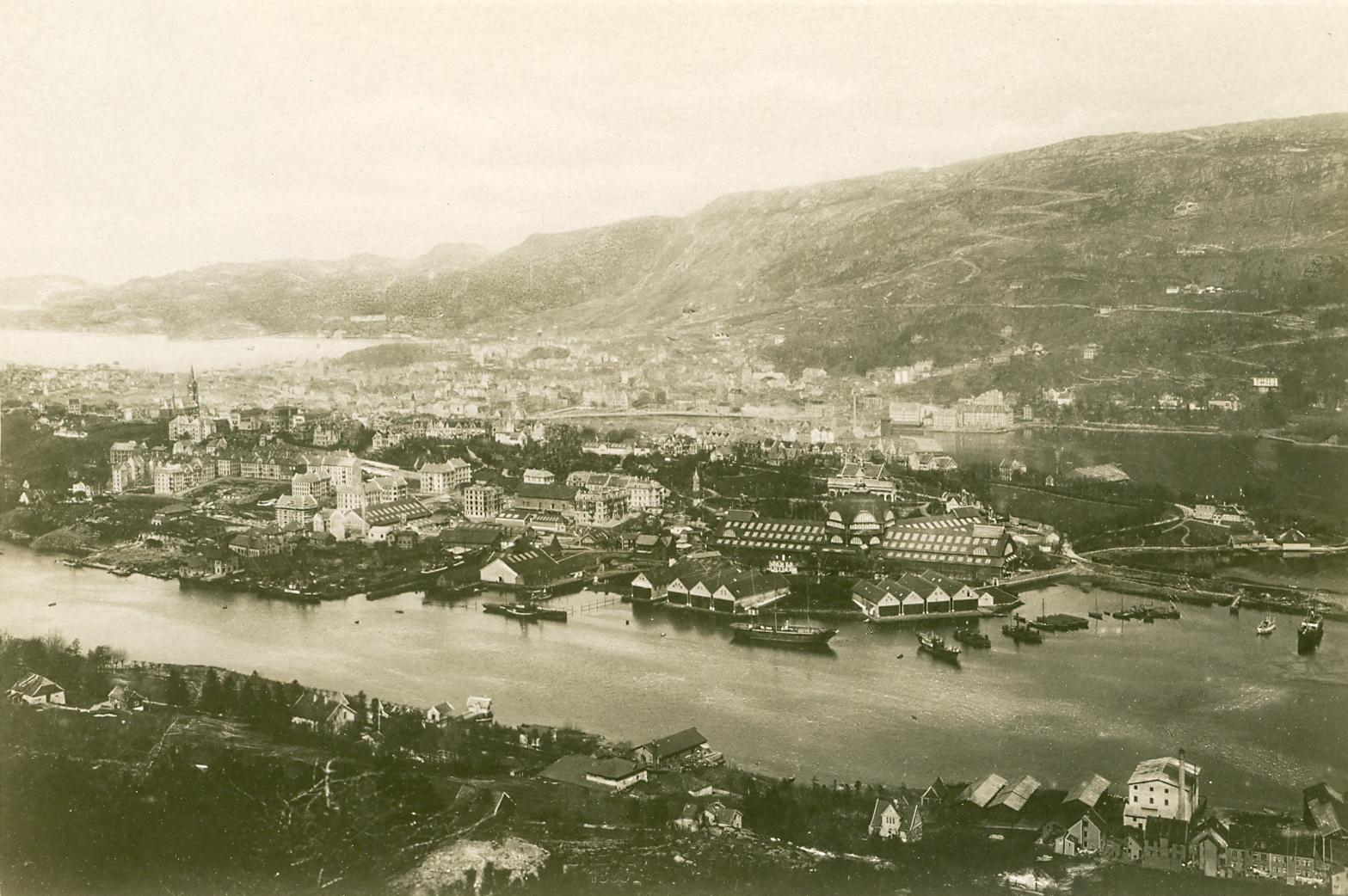 Artist: K. Nyblin Place: Bergen/Norway Subject: Overview of the exhibition erea seen from mount Løvstakken. Medium: Postcard Notes: none Persistent URL: Original belongs to the Local Collection at Bergen Public Library